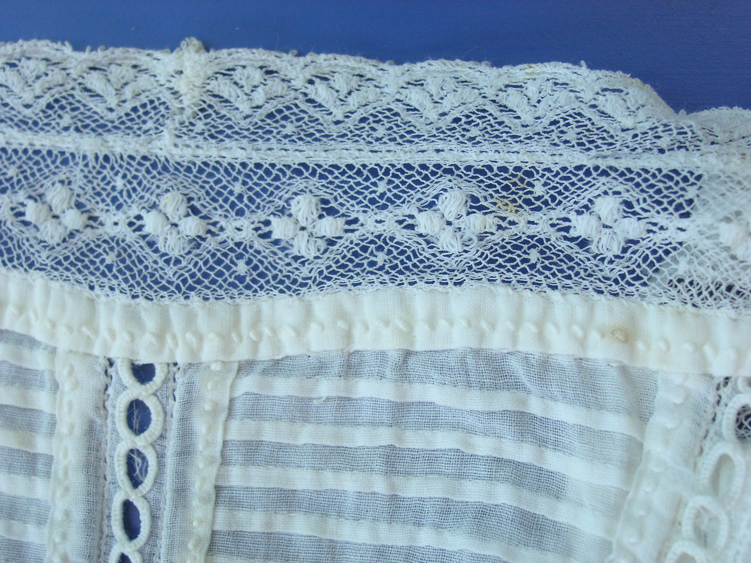 Gown, baby's, fine white cotton cambric, full length decorated with tucks and insertions down front panel of bodice and skirt. Broderie Anglaise down skirt and on sleeves. Fine machine-made Valencienne lace around neck. "Baby gown with skirt and cap sleeves. Skirt has a front panel of lace insertion with alternating set of four pintucks, and a a frill of broderie anglaise, and five tucks all the way around the lower edge. Bodice has a V shaped panel with very fine pin tucks and a broderie anglaise frill on the edge. Also some feather stitch. Fine machine made valencian lace on cap sleeves and around neck edge."